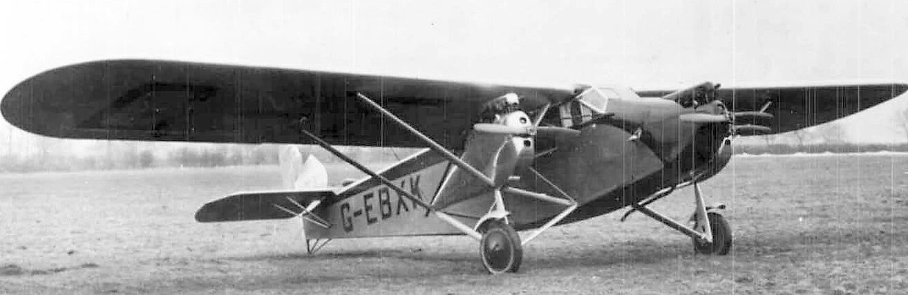 Westland IV photo from NACA Aircraft Circular No.95